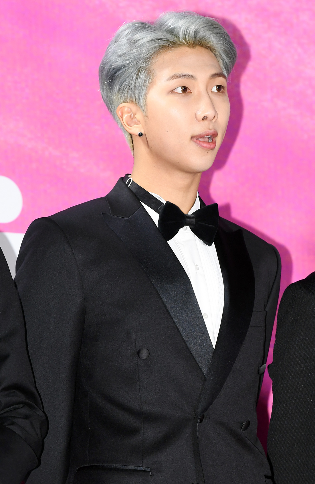 South Korean rapper RM at the 2019 Seoul Music Awards on 15 January 2019